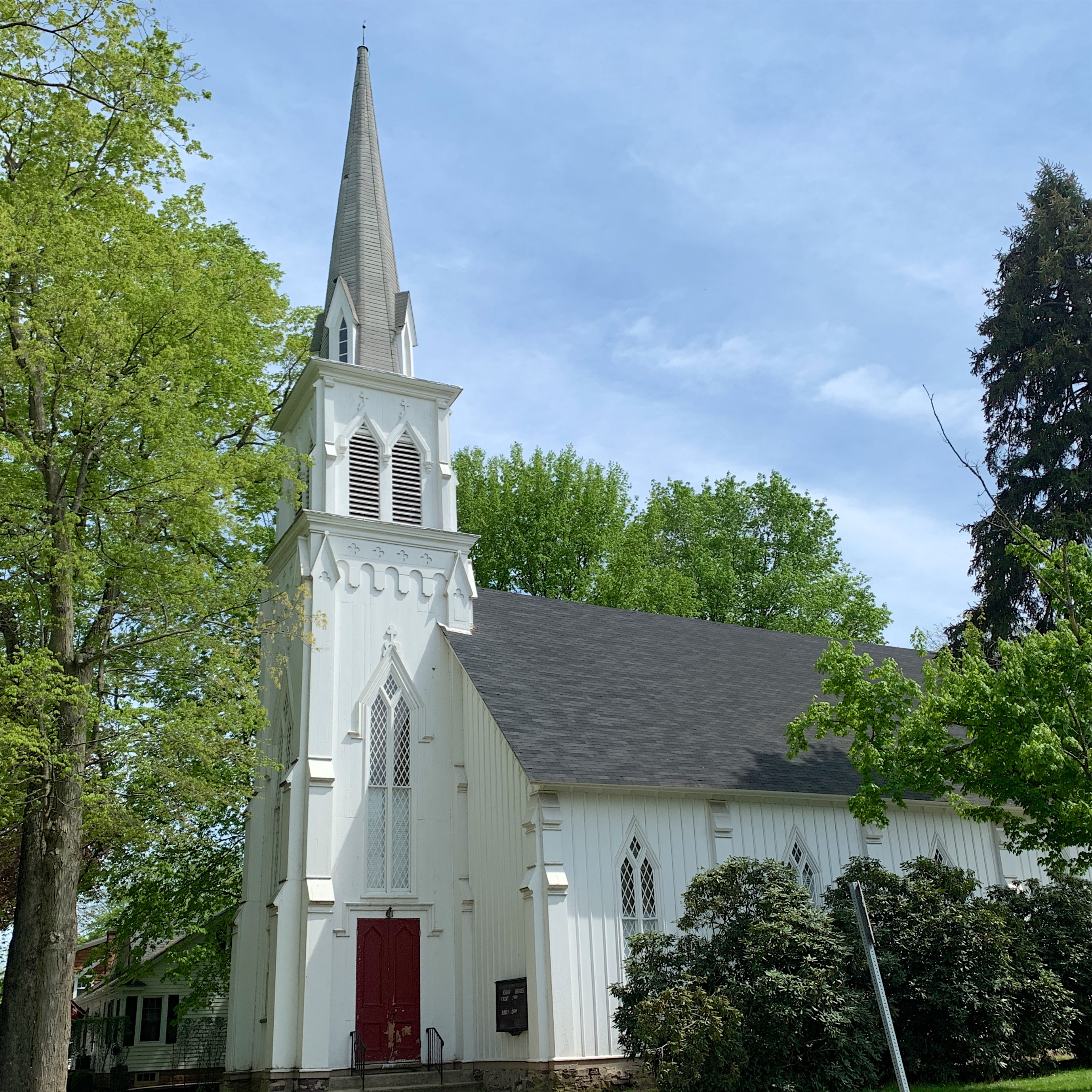 The former Dutch Reformed Church in Rocky Hill, New Jersey. Pivotal, contributing building #25 in the Rocky Hill Historic District. Now the Pentecost International Worship Center.